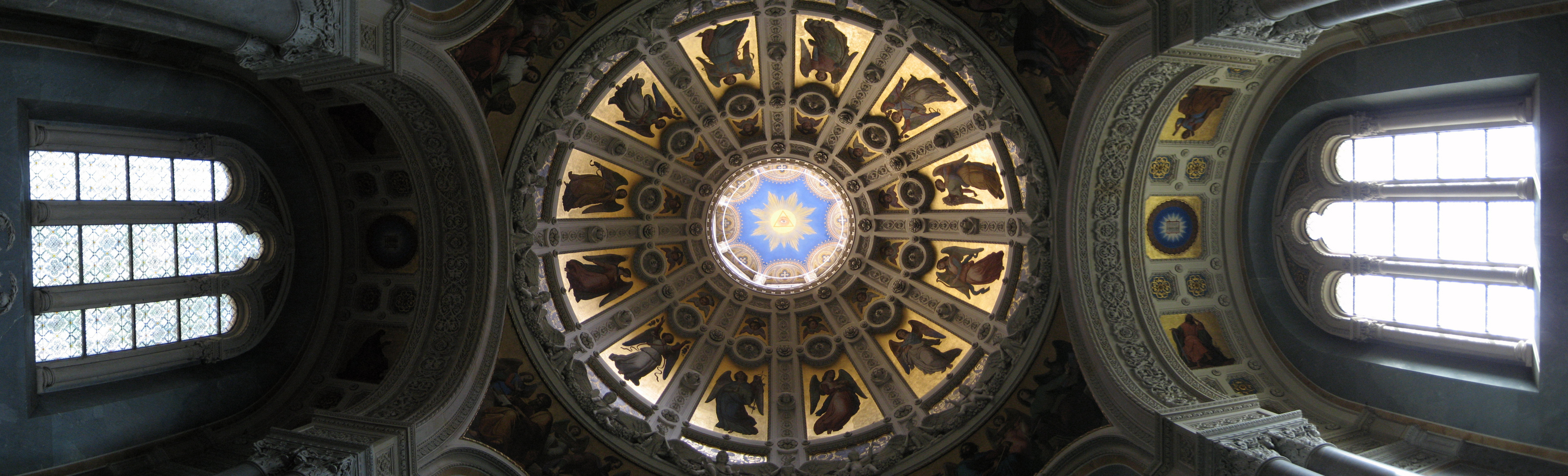 Wiesbaden Russian Orthodox Church